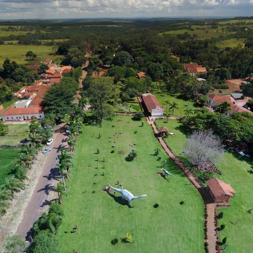 Paleontological Research Center and Dinosaur Museum